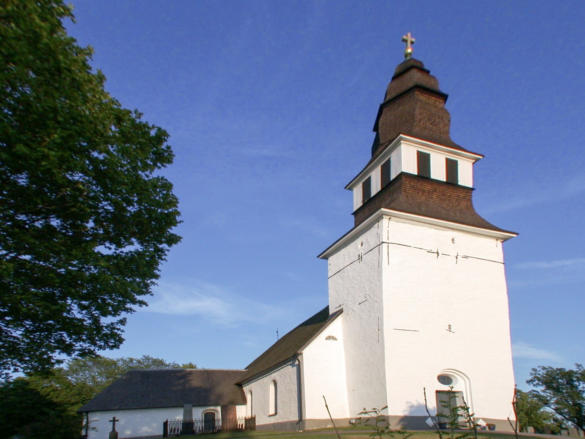 Kristberg church, Motala, Sweden.